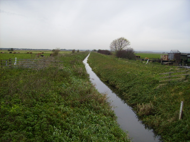 Folkton Carr, north of Folkton, North Yorkshire; as with neighbouring Flixton Carr, once fenland and before that submerged below Lake Pickering; the drain is called the River Hertford